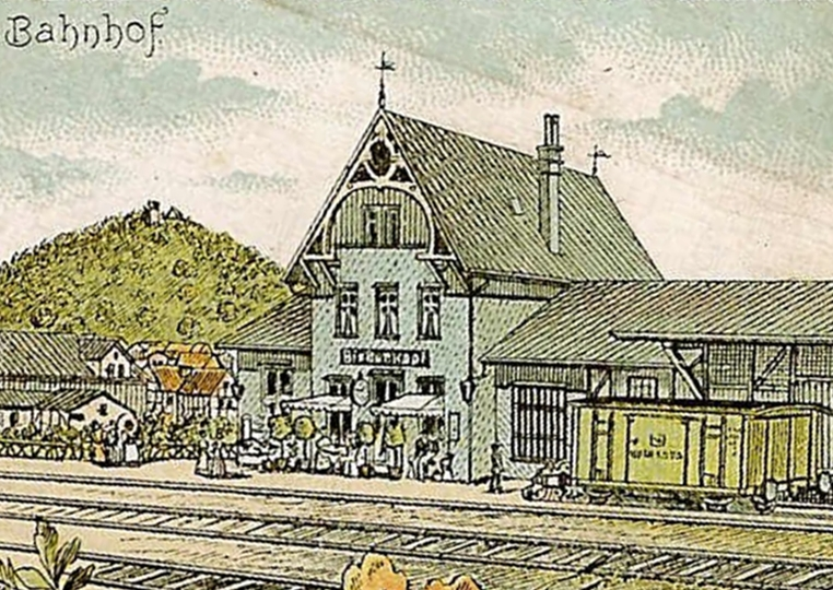 Germany, Biedenkopf: cropped part (railway station) of a postcard (1898) with motives of Biedenkopf, Hessia.